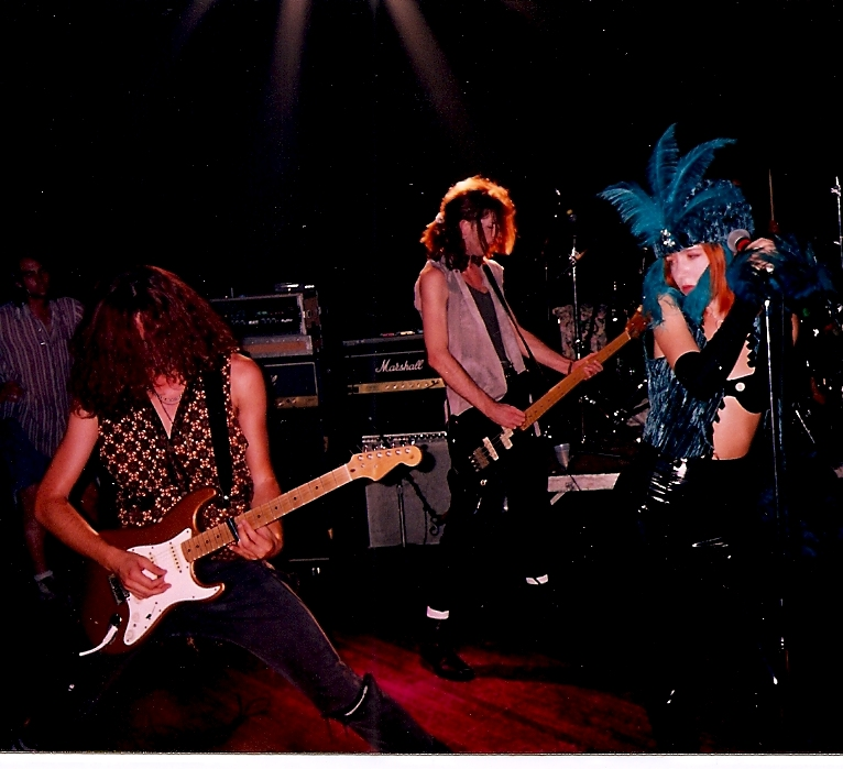 Inger Lorre performing with her group, The Nymphs, at The Roxy in 1990. Also pictured: Cliff Jones on bass and Geoff Siegel on guitar.